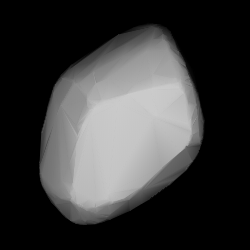 3D convex shape model of 1719 Jens, computed using light curve inversion techniques. J. Hanuš, J. Ďurech, M. Brož, B. D. Warner (June 2011). "A study of asteroid pole-latitude distribution based on an extended set of shape models derived by the lightcurve inversion method". Astronomy and Astrophysics 530: A134. ISSN 0004-6361. arXiv